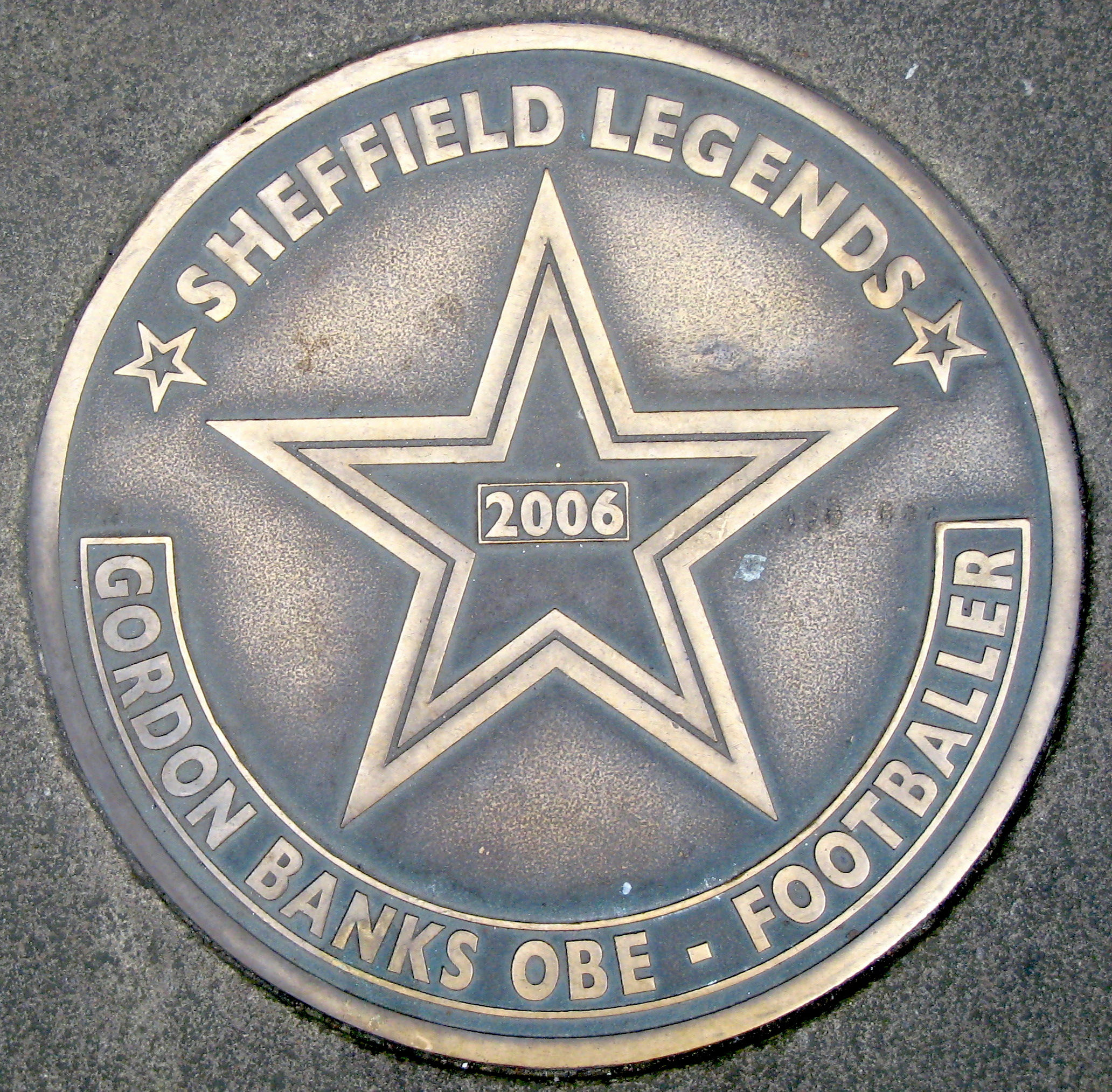 Commemorative star in the pavement outside Sheffield Town Hall: a "walk of fame" for people associated with the city. Gordon Banks.